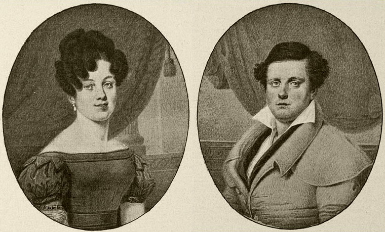 Portraits of Dutch actress Maria Francisca Bia (1809-1889) and her husband, theatre director Reijnier Engelman (1795-1845), ca. 1830s.